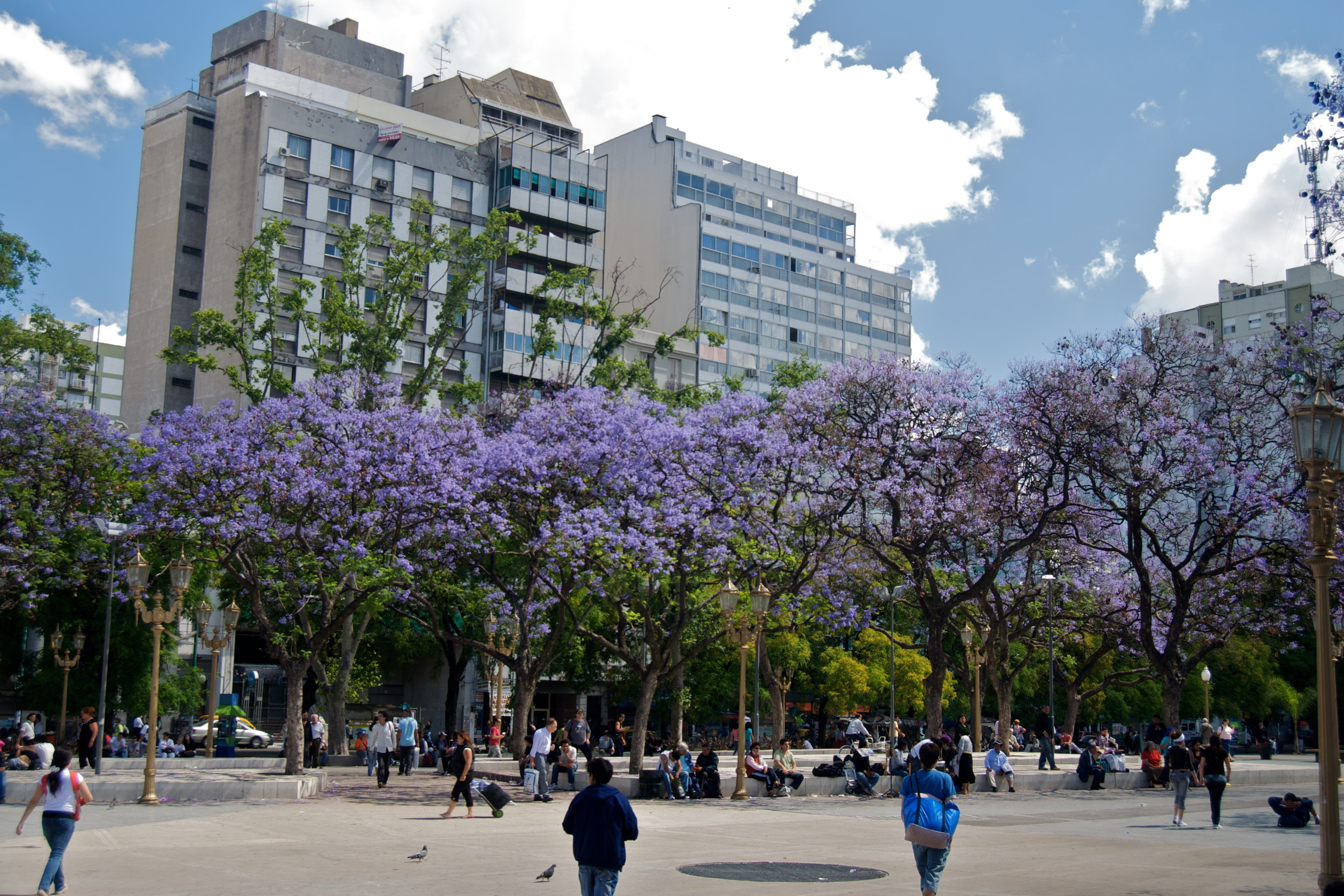 Jacarandas in bloom at Plaza Miserere, in the Once section of Buenos Aires.